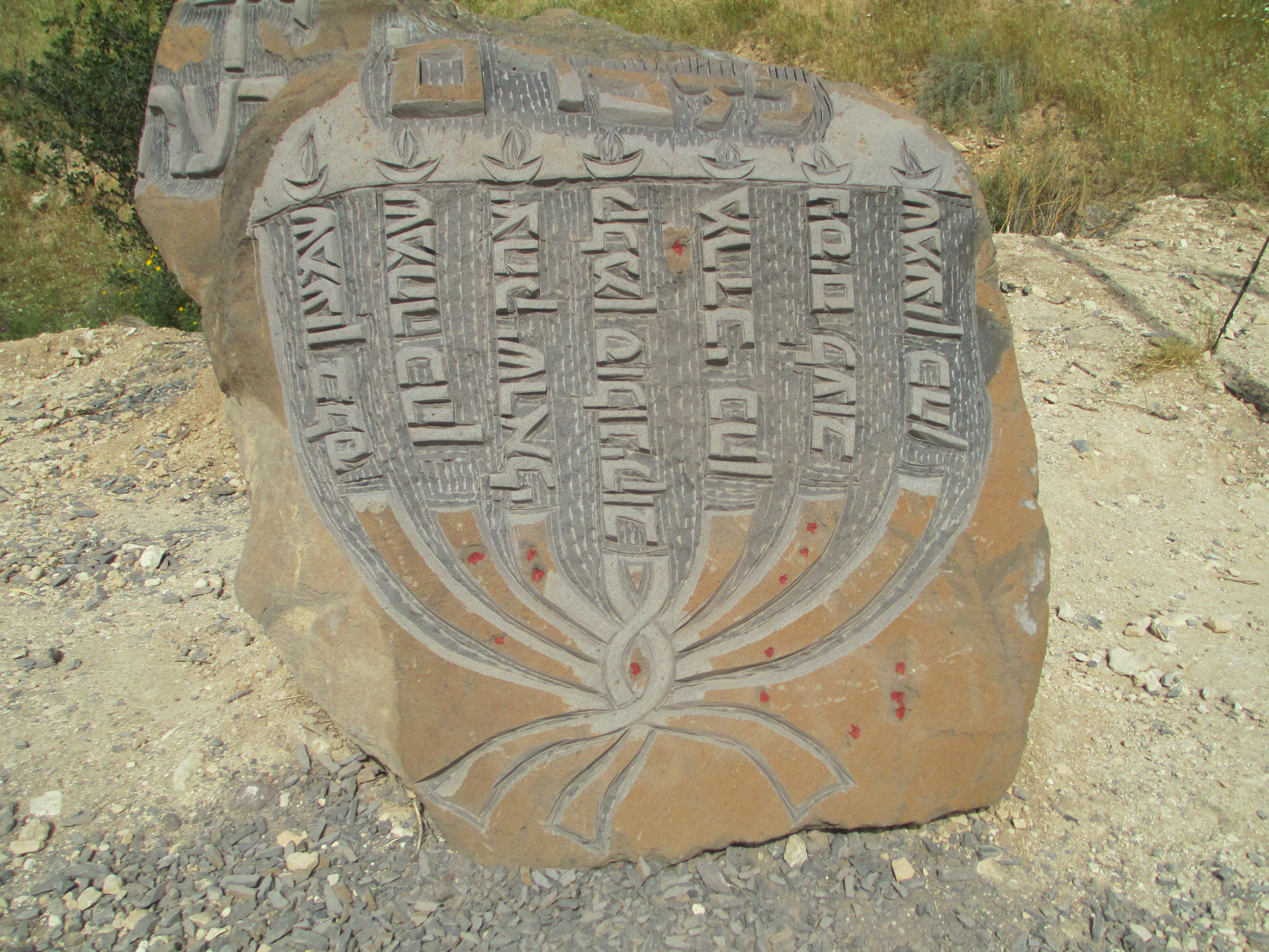 Yad LaShiv'a (lit. memorial for the Seven) is a memorial to 7 Israeli soldiers killed by Syrian soldiers on 4/4/51 near Hamat Gader (Al-Hamma